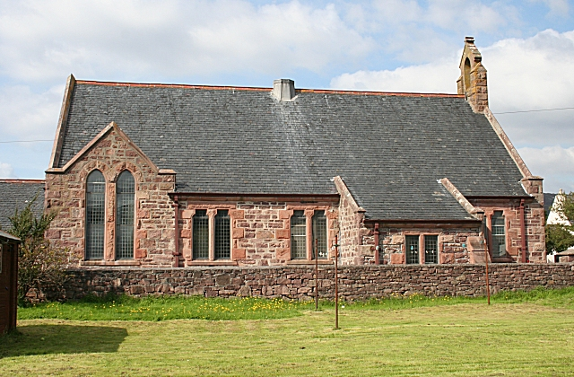 Lochbroom Free Kirk The side elevation of the kirk.